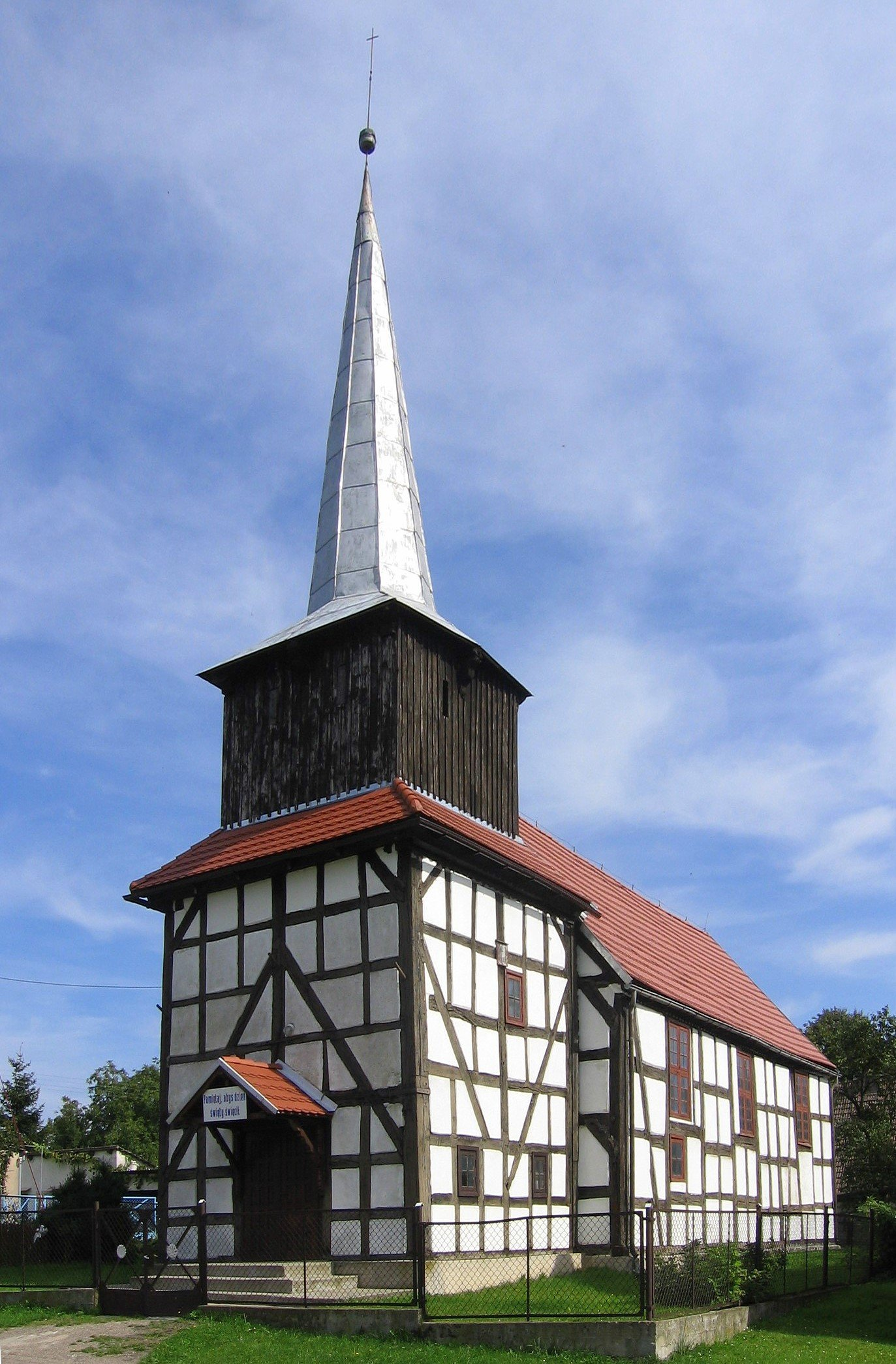 Our Lady of Częstochowa church in Rotnowo, Poland